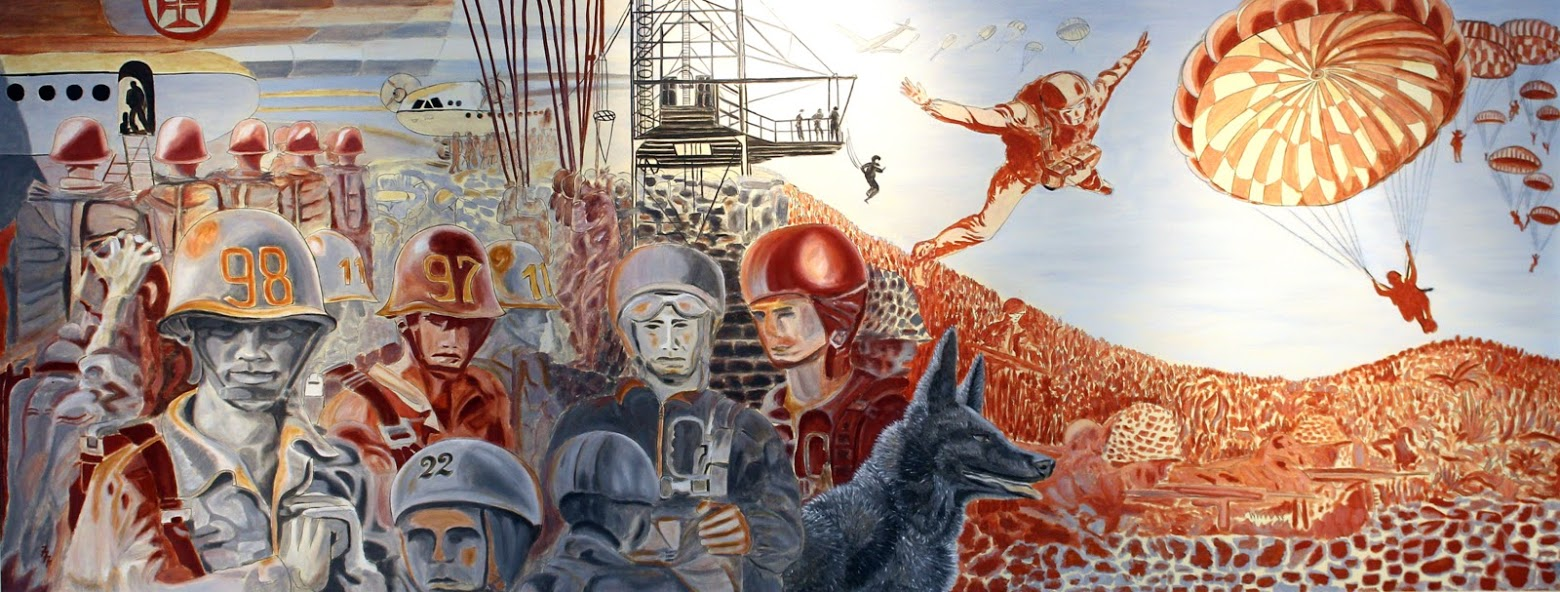 Portuguese paratroopers' commemorative painting, located in Regimento de Paraquedistas, Tancos (Portugal)